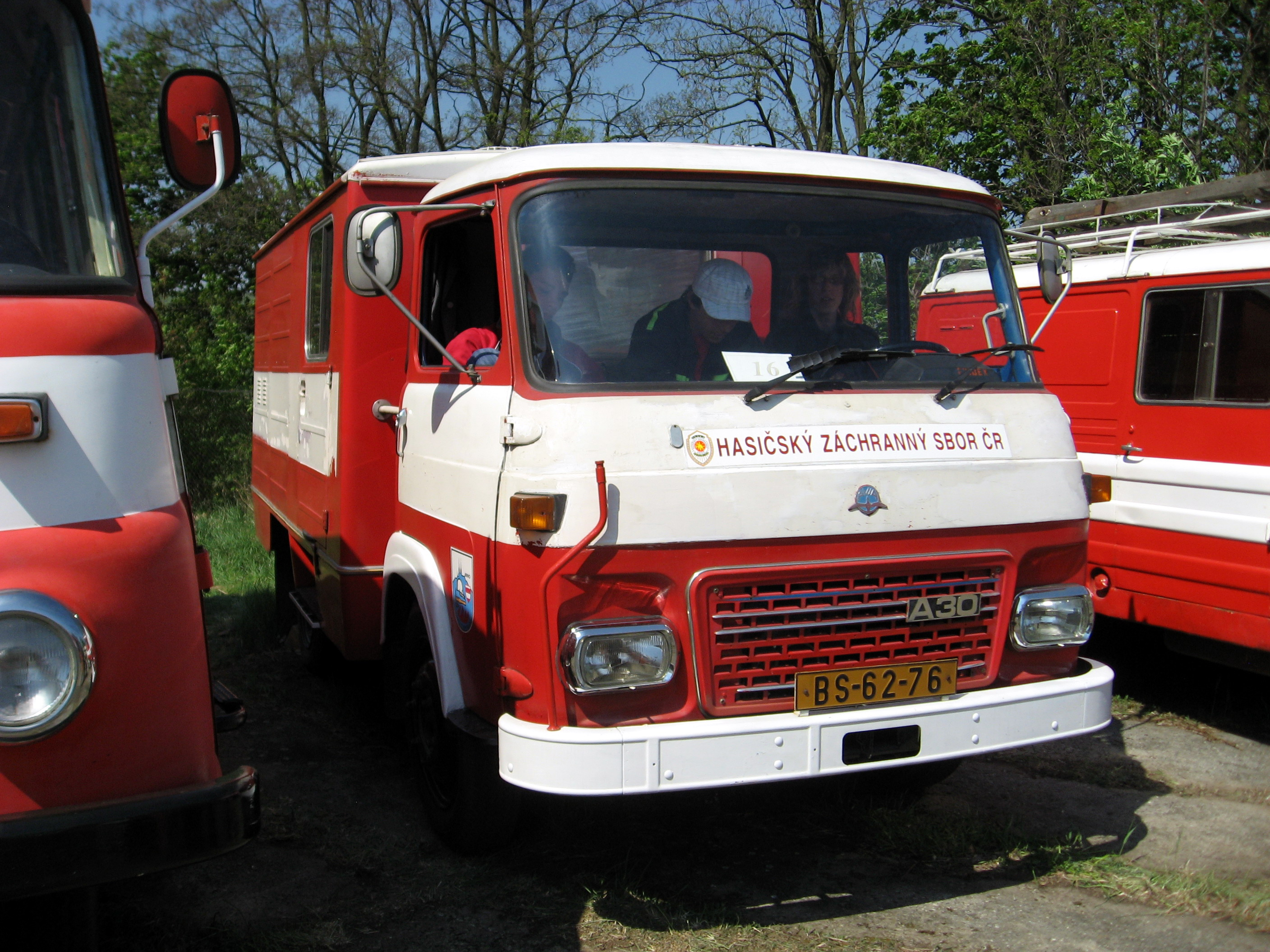 Avia A31 2009 at Řečkovice